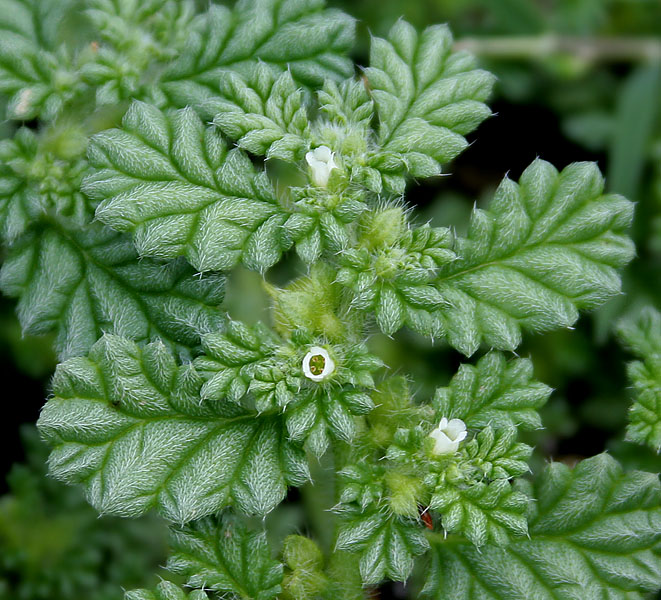 Coldenia procumbens - Seruppadai (செருப்படை) - at Pocharam lake, Andhra Pradesh, India.